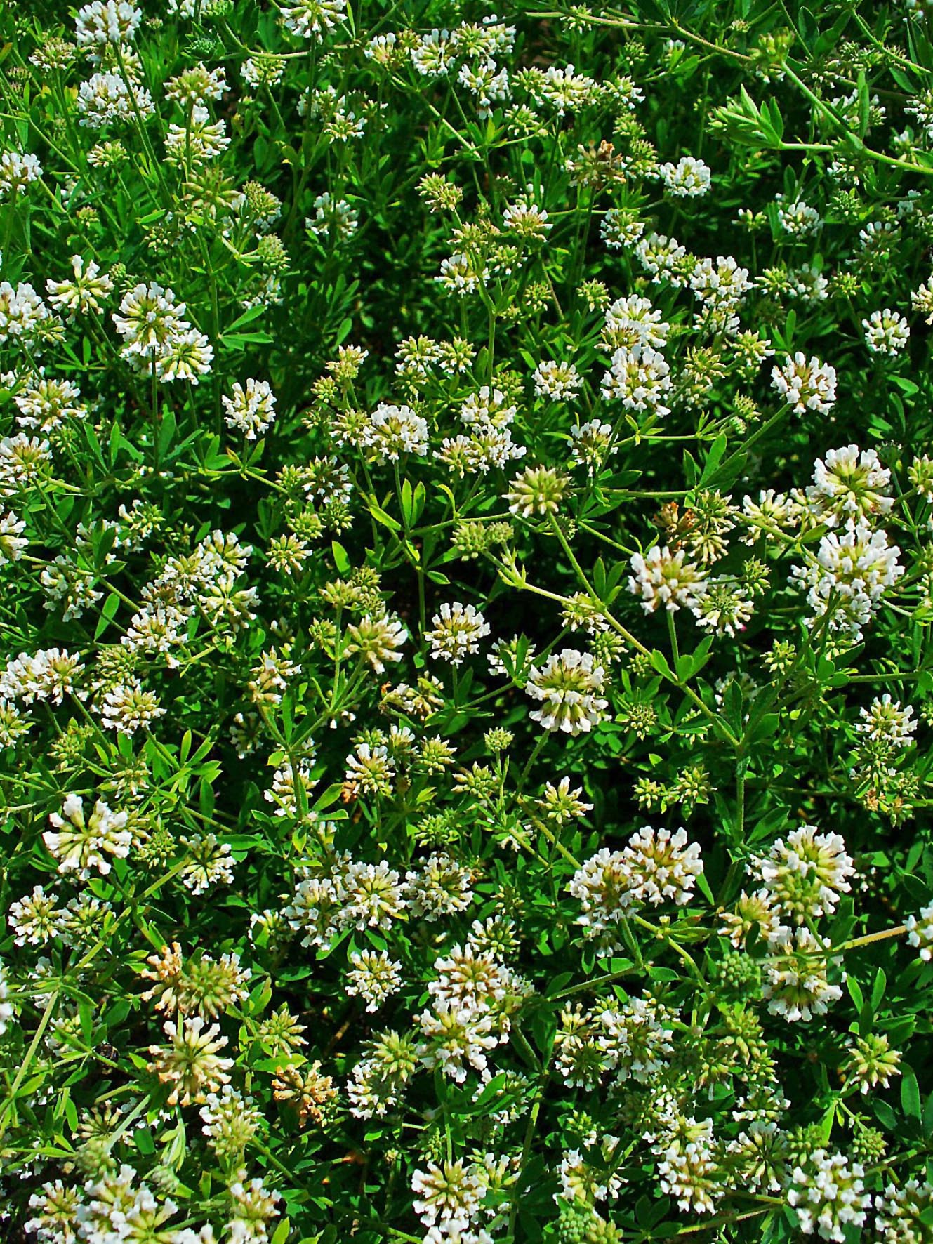 Dorycnium pentaphyllum ssp. herbaceum, Fabaceae, Badassi, habitus; Botanical Garden KIT, Karlsruhe, Germany.